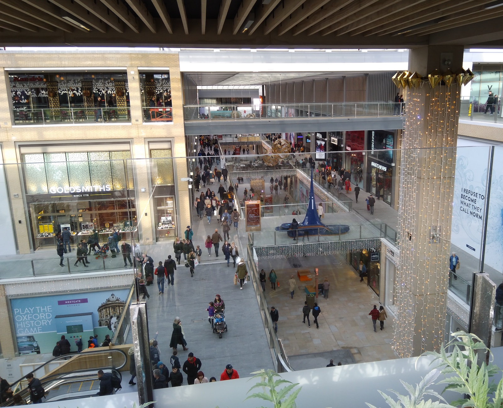 Internal shot of the new Westgate shopping centre in Oxford, England, shortly after opening (picture taken on December 3, 2017)